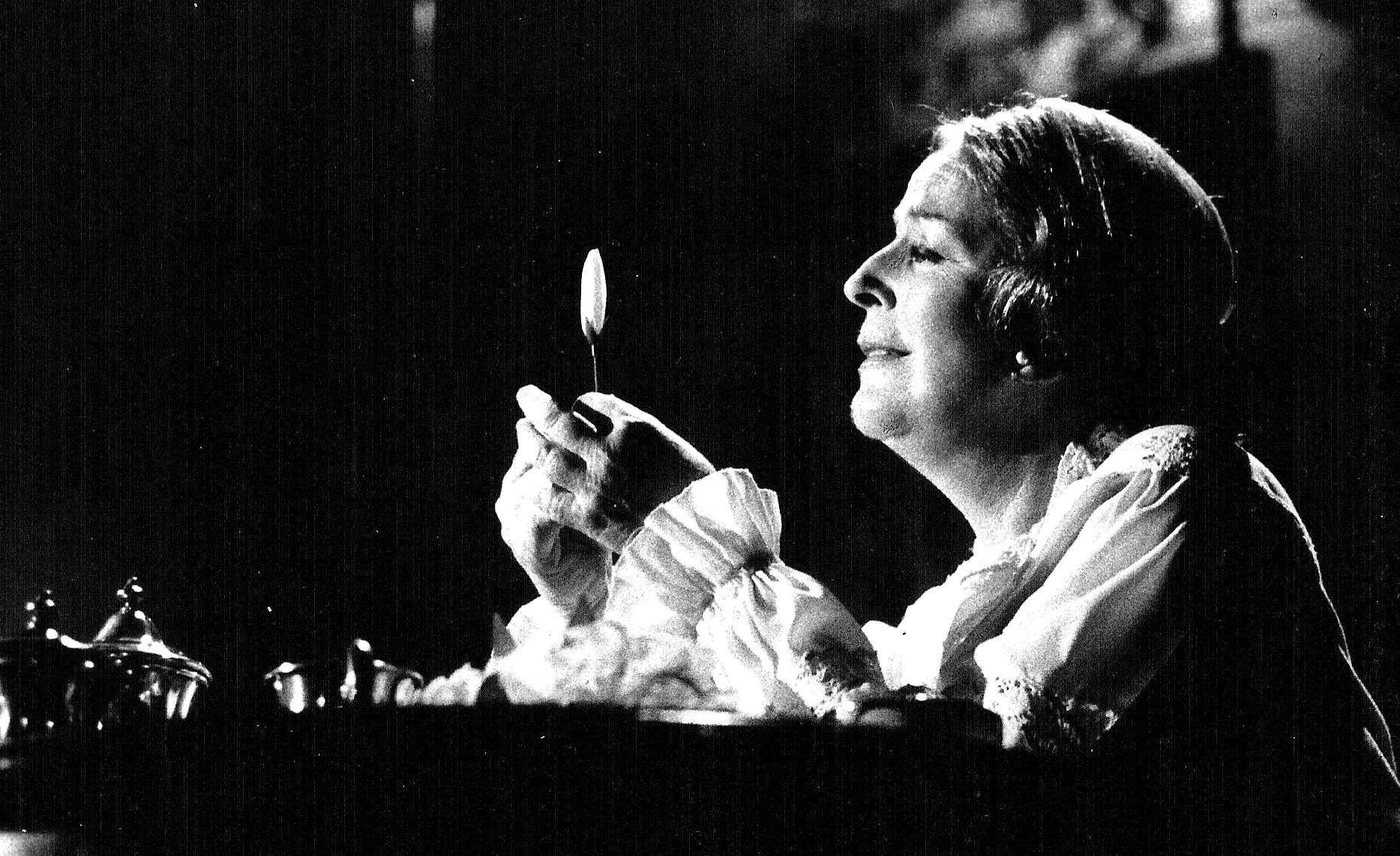 China Zorrila as Emily Dickinson, Buenos Aires, 1980